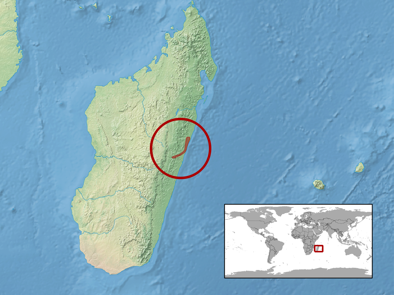 geographic distribution of Phelsuma hoeschi (Native: Madagascar)